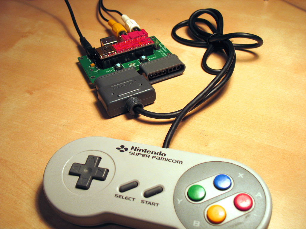 Uzebox open source hardware and software console